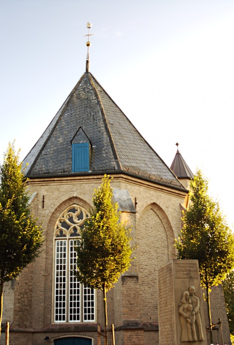 The Evangelical Reformed Church in Larrelt, a localityof Emden, Lower Saxony, Germany, is owned and used by a Reformed congregation within the Evangelical Reformed Church – Synod of Reformed Churches in Bavaria and Northwestern Germany.